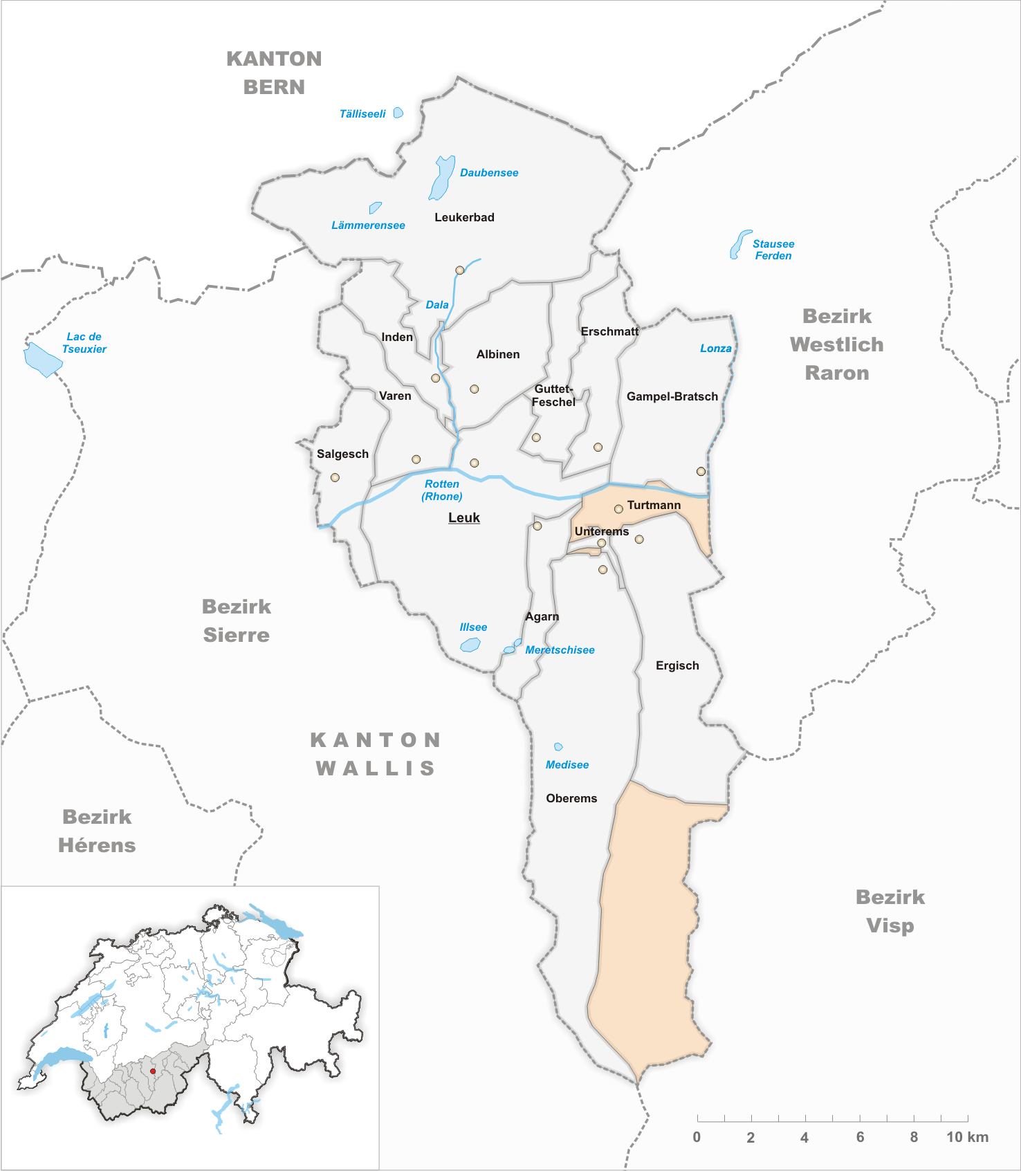 Municipality Turtmann